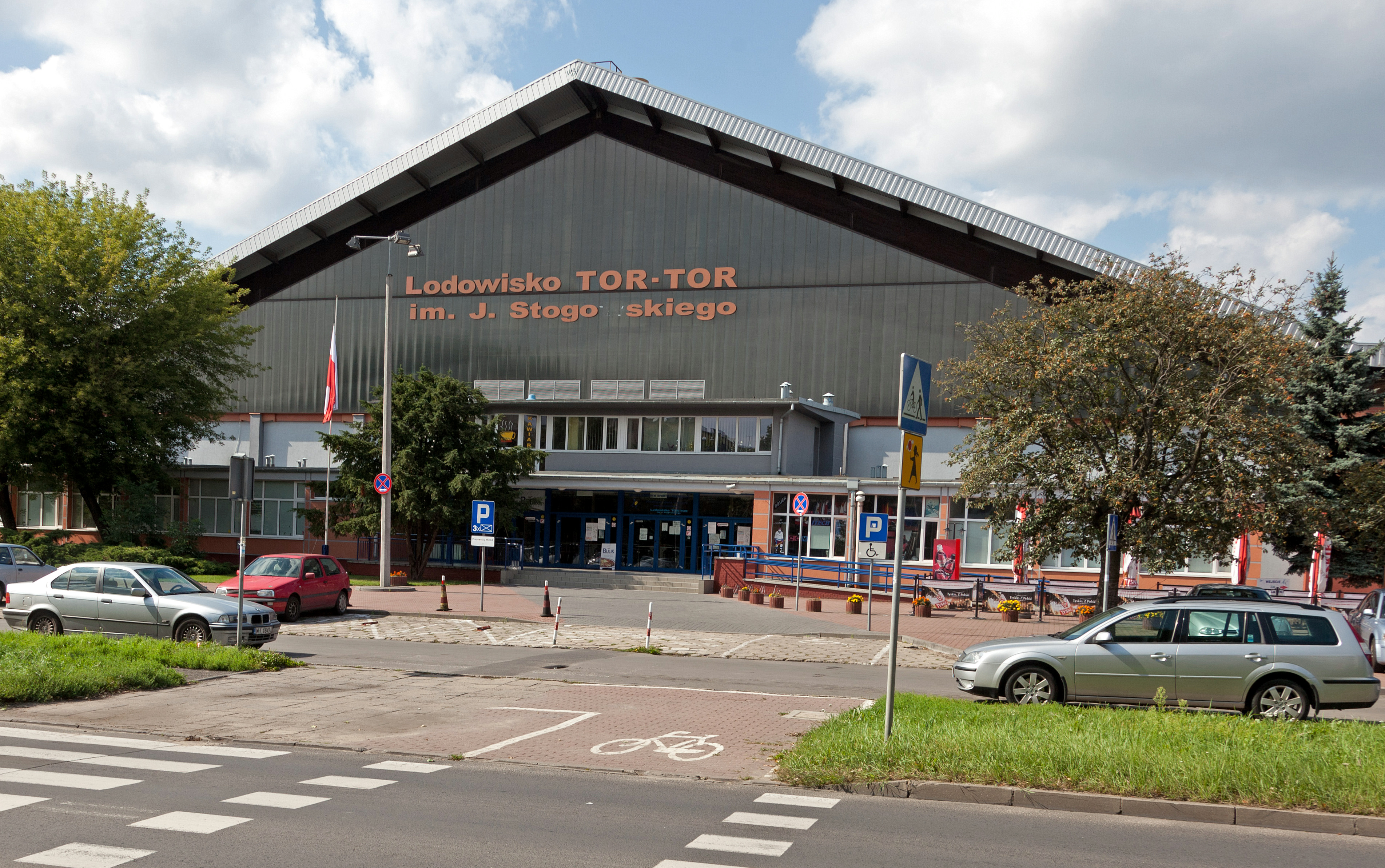 Tor-Tor Skating Rink in Toruń, Poland.